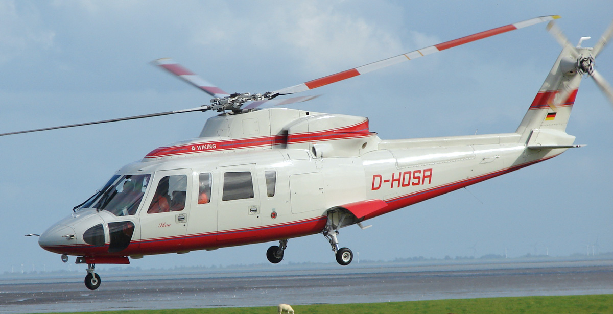 Sikorsky S-76A++ helicopter of WIKING Helikopter Service GmbH at airport Wilhelmshaven-Mariensiel (EDWI), registration D-HOSA